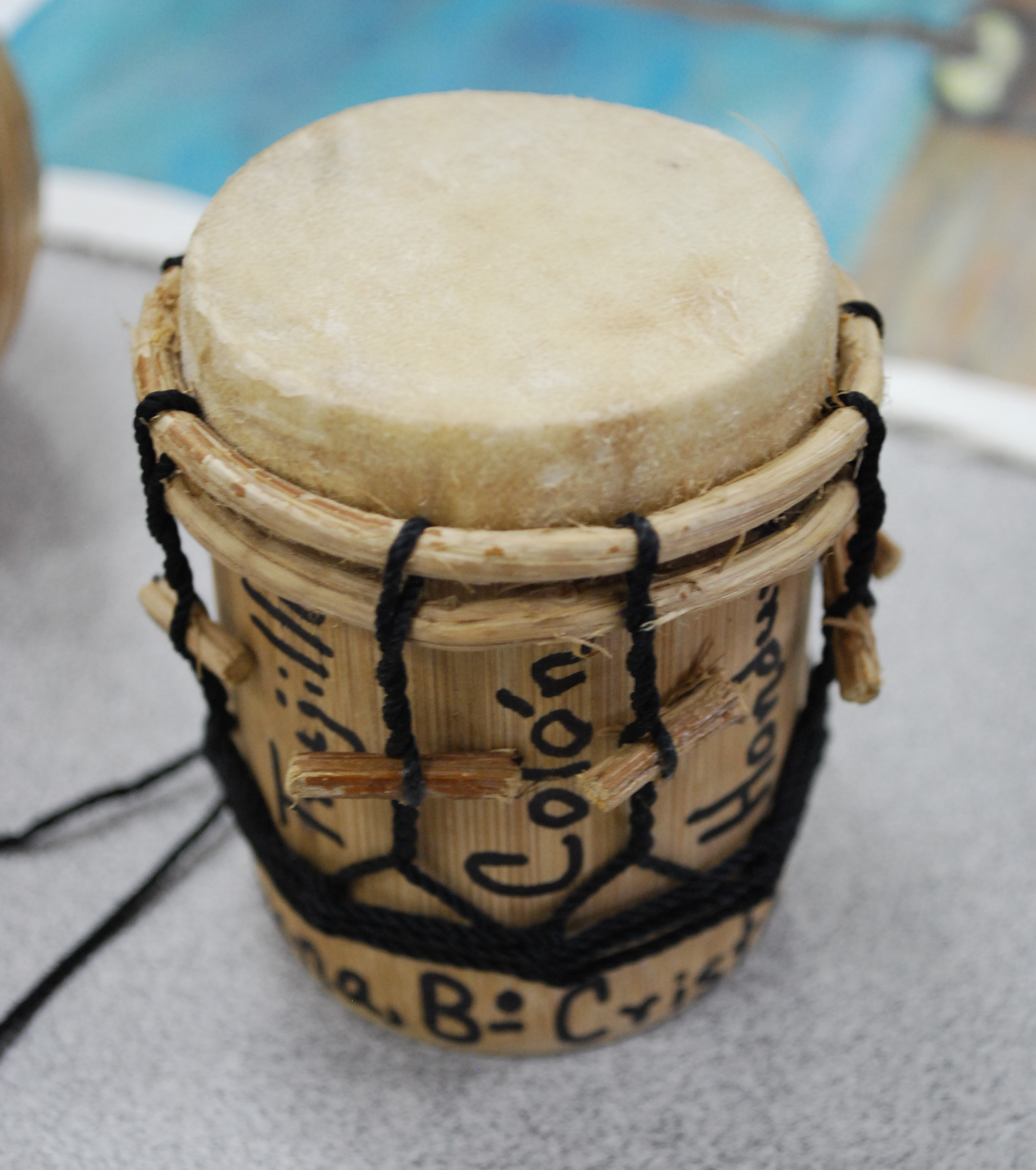 Handcrafted minature Garifuna drum from Honduras